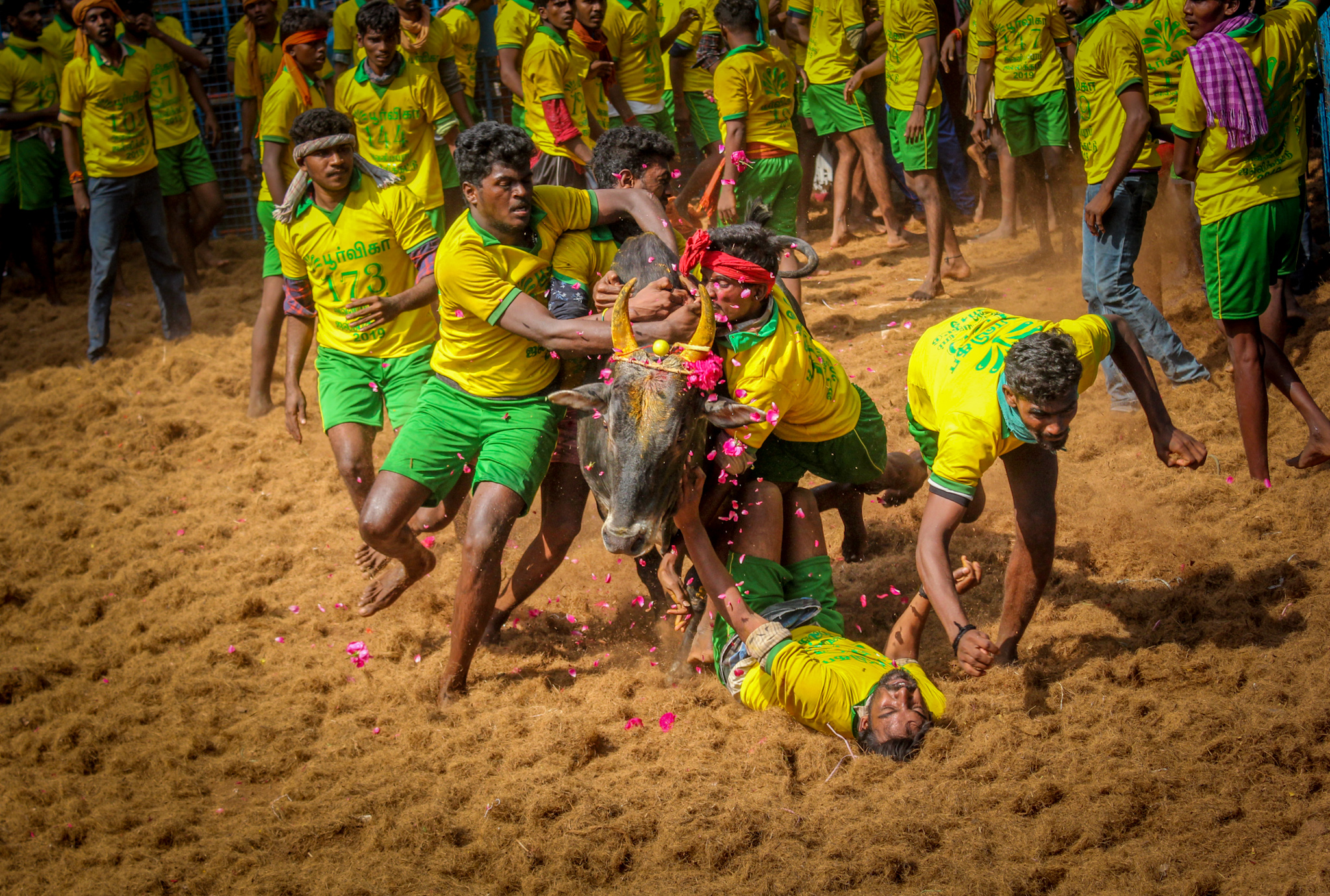 A group of youngsters played with a bull. Jallikattu is a heritage game of south India This photo has been taken in the country: India